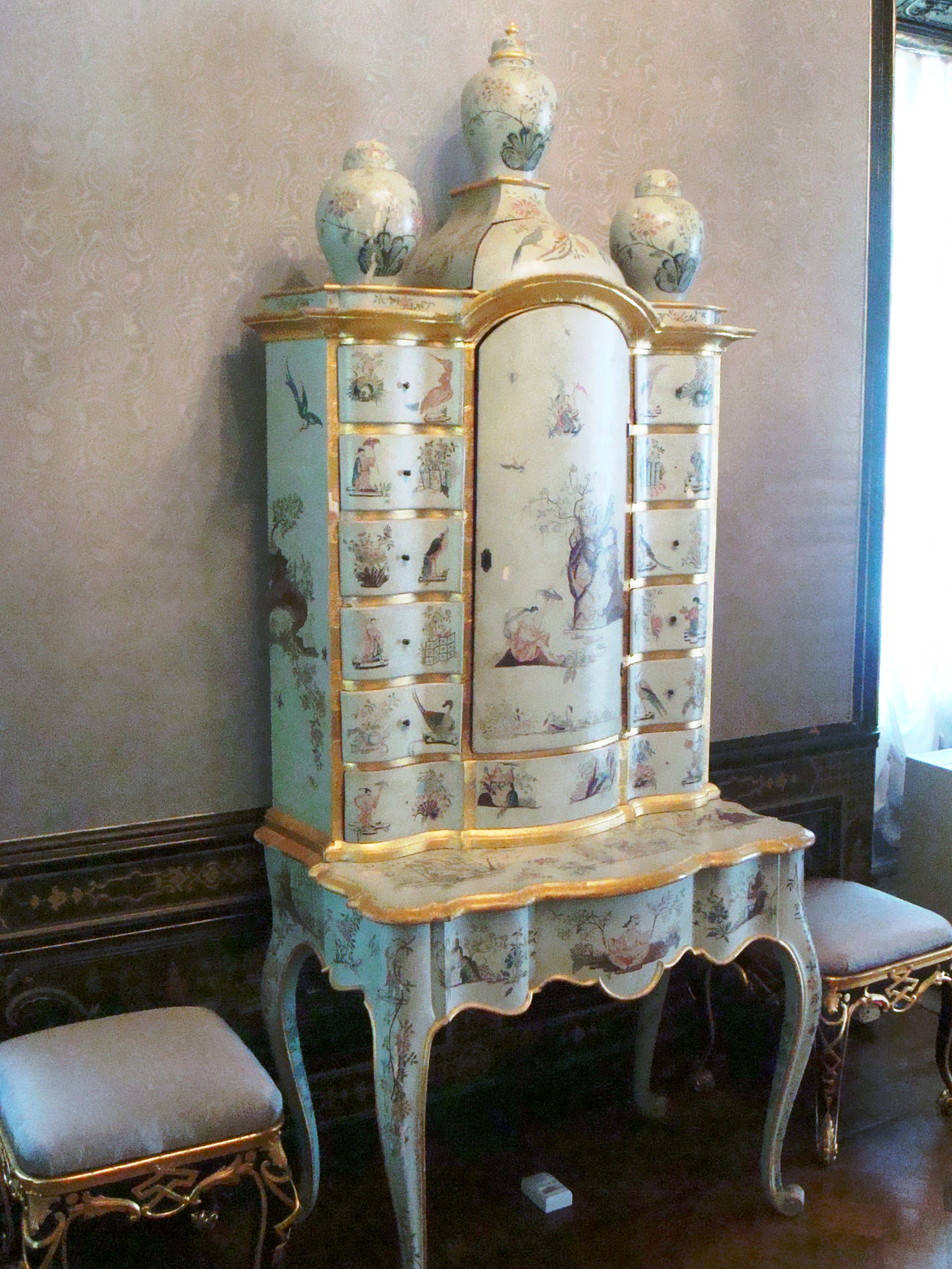 The bureau in the palace of Peter III, Oranienbaum, Russia